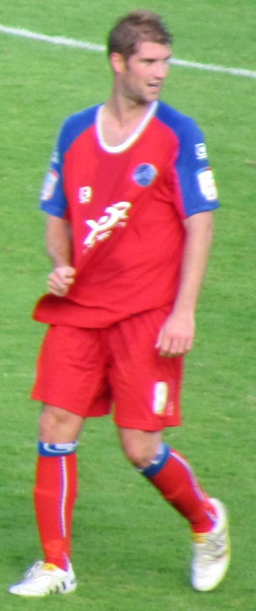 Ben Harding